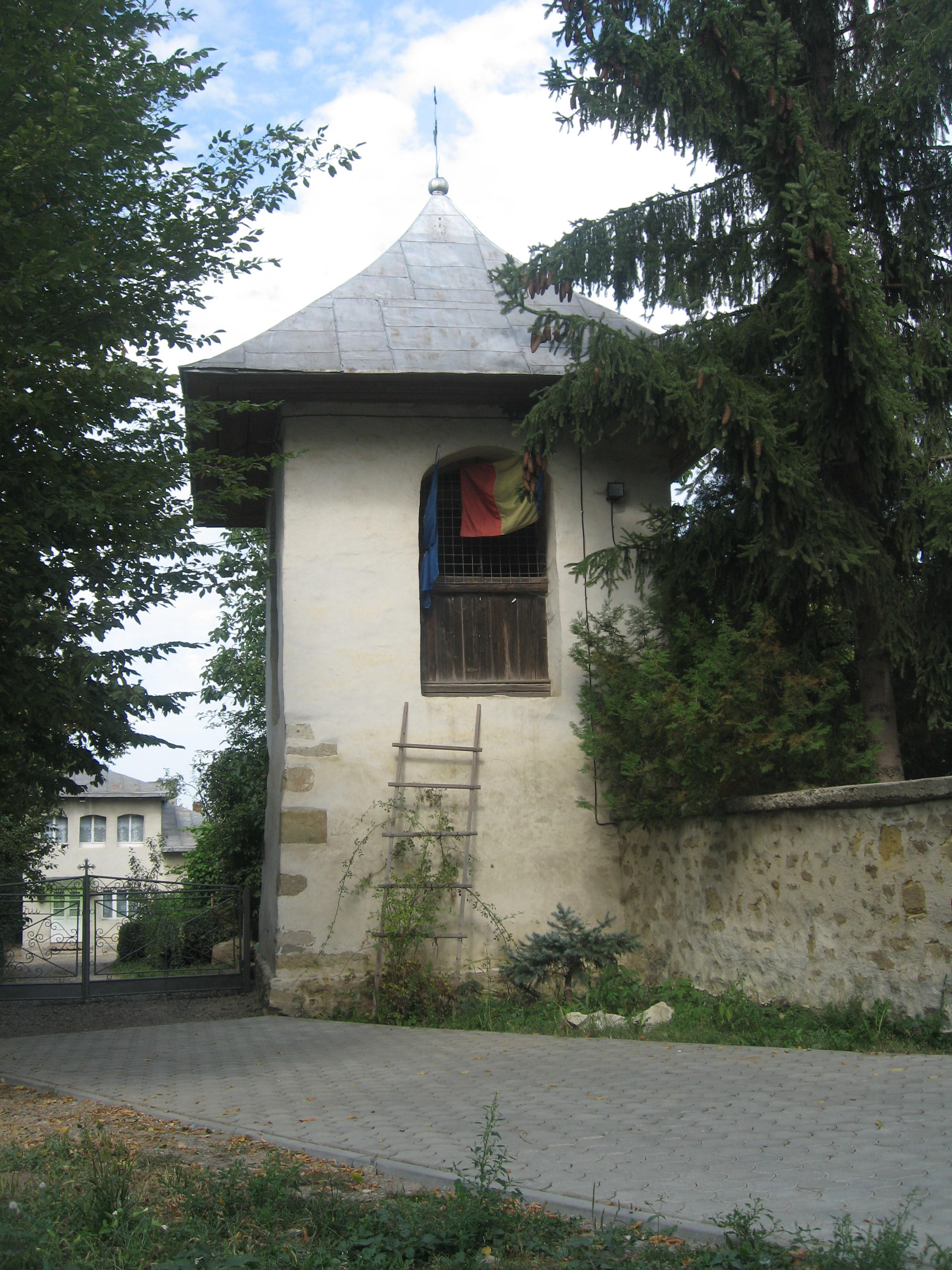 Biserica Sfântul Ilie din Sfântu Ilie 02